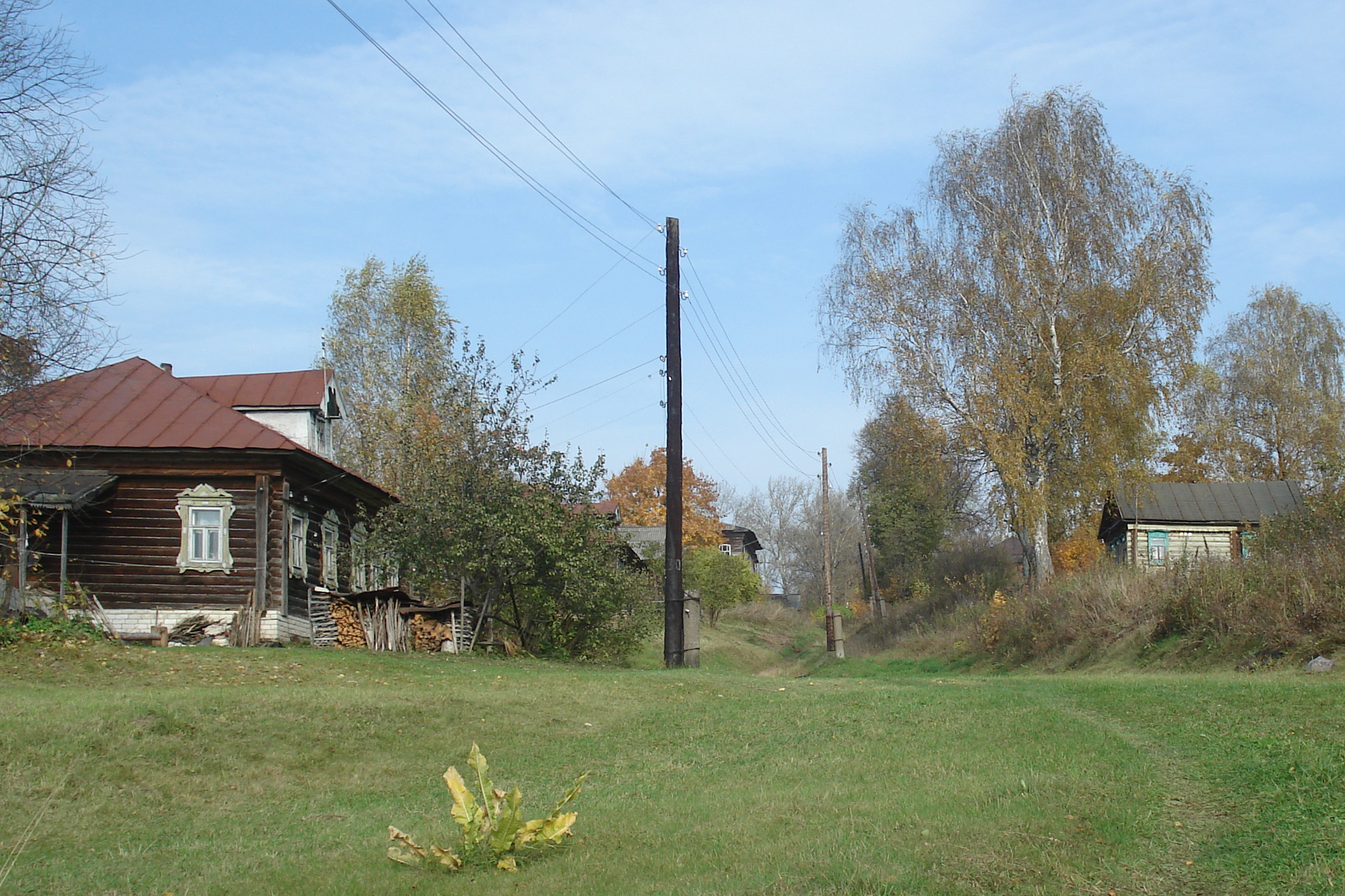 The Village of Sobolevo. Nizhegorodskaya oblast. Russia.